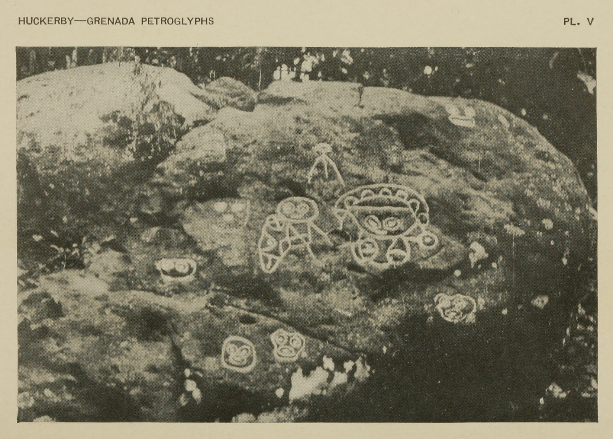 Photograph of the main boulder at Mt. Rich Petroglyphs in Grenada, W.I.